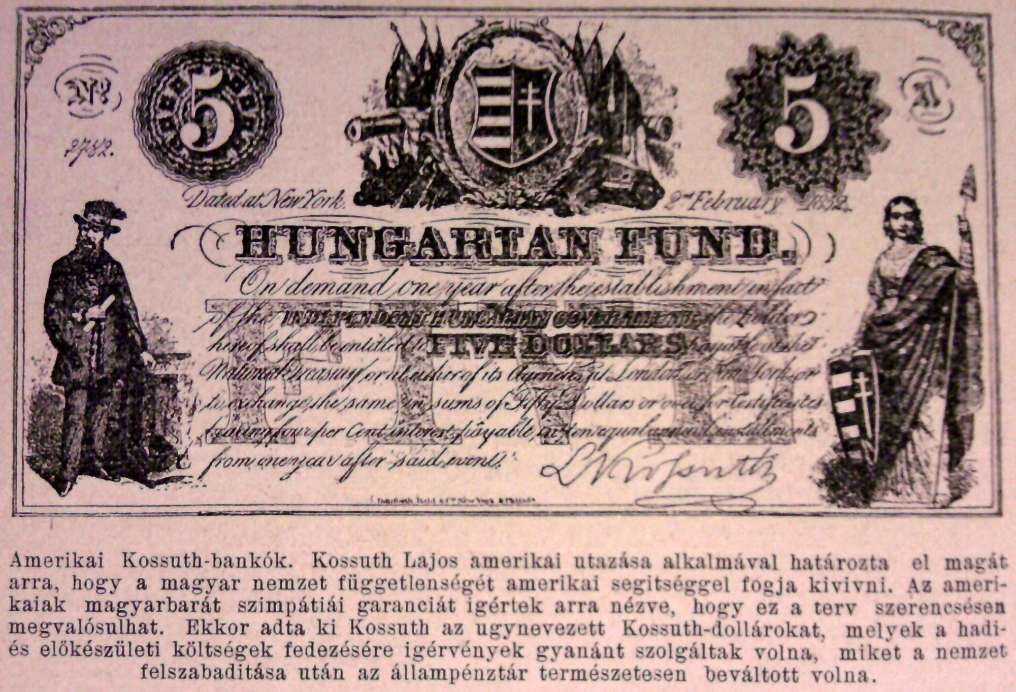 Kossuth´s bankó, Five dollars, 1852